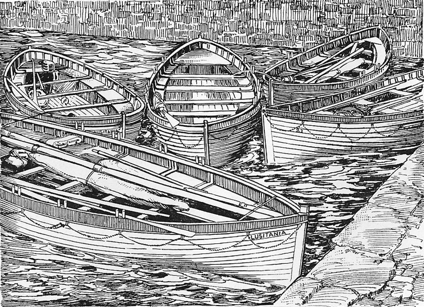 Lusitania's Life boats in the sleep in Queenstown